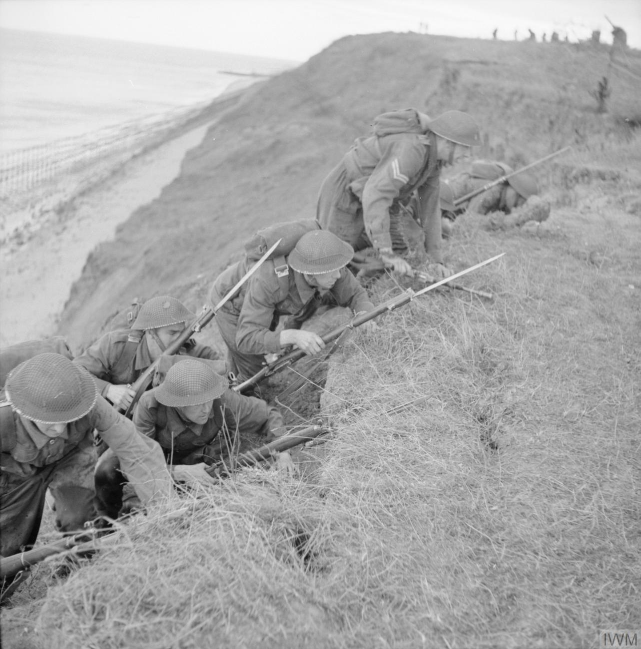 The British Army in the United Kingdom 1939-45 Infantry of 45th Division climb up cliffs at Frinton-on-Sea, Essex, 16 October 1942.